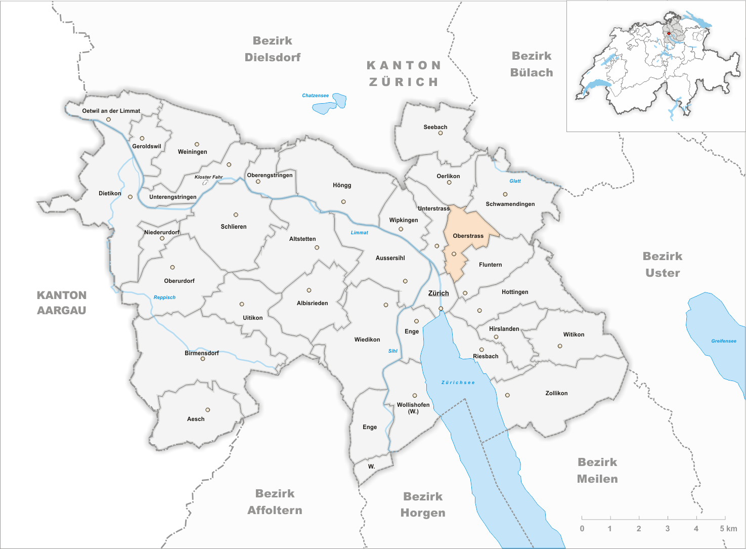 Municipality Oberstrass